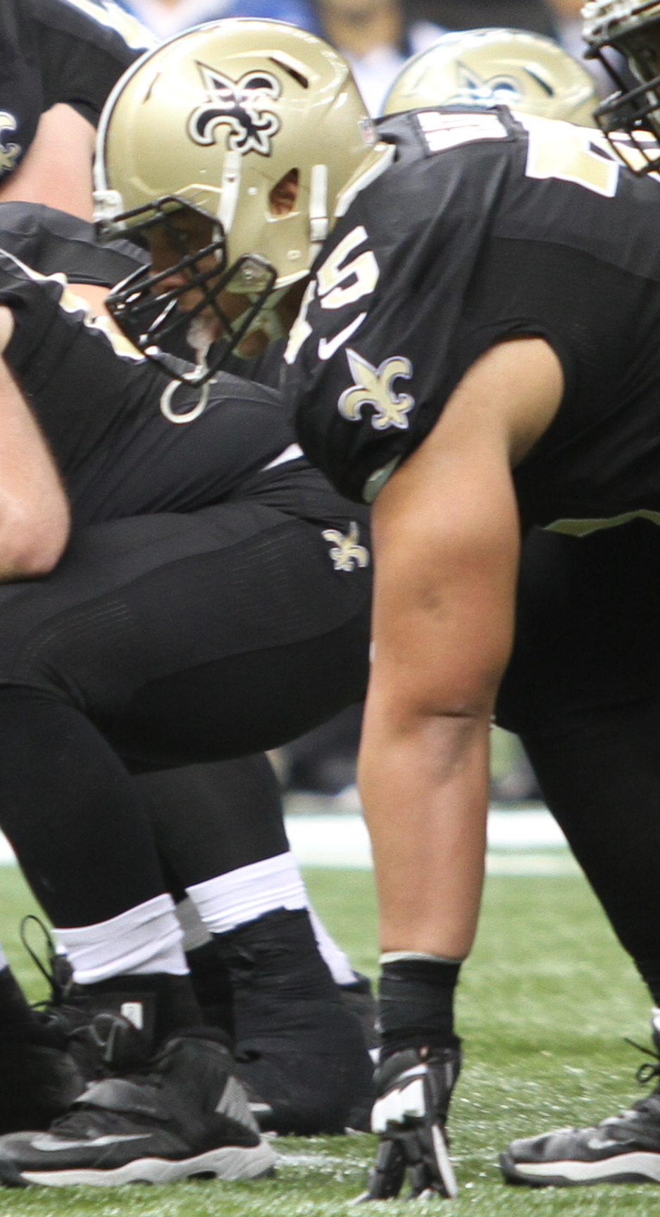 New Orleans Saints vs Carolina Panthers, December 6, 2015, Tammy Anthony Baker, Photographer